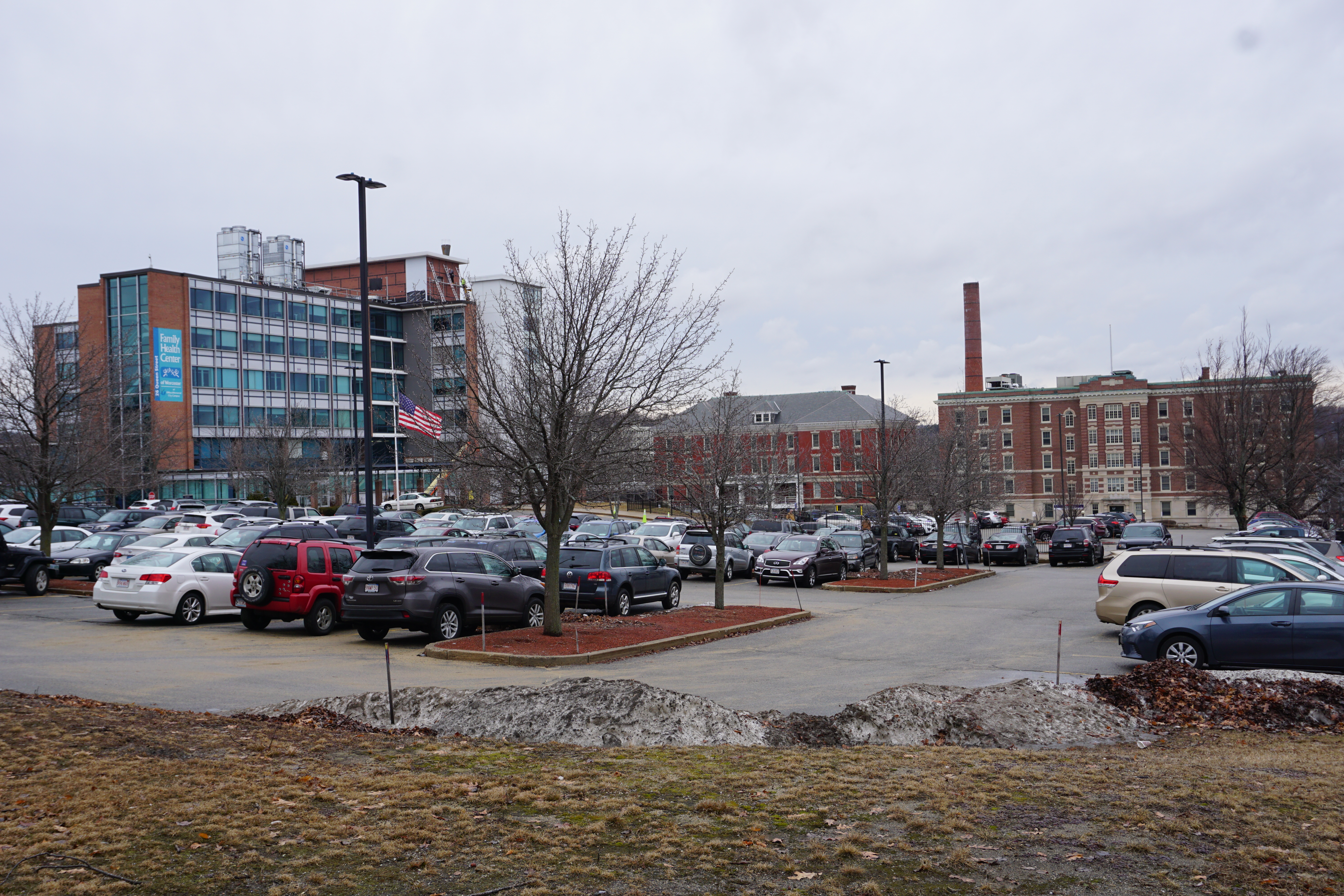 Campus of former Worcester City Hospital (now Family Health Center of Worcester) at 26 Queen Street in Worcester, Massachusetts (USA) on February 16, 2018.